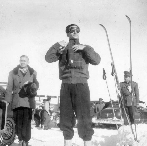 Mohammad Reza Pahlavi with his friend, Ernest Perron. Article 16 of Iran's Law for the Protection of Authors, Composers and Artists Rights (1970) puts this image in the public domain.